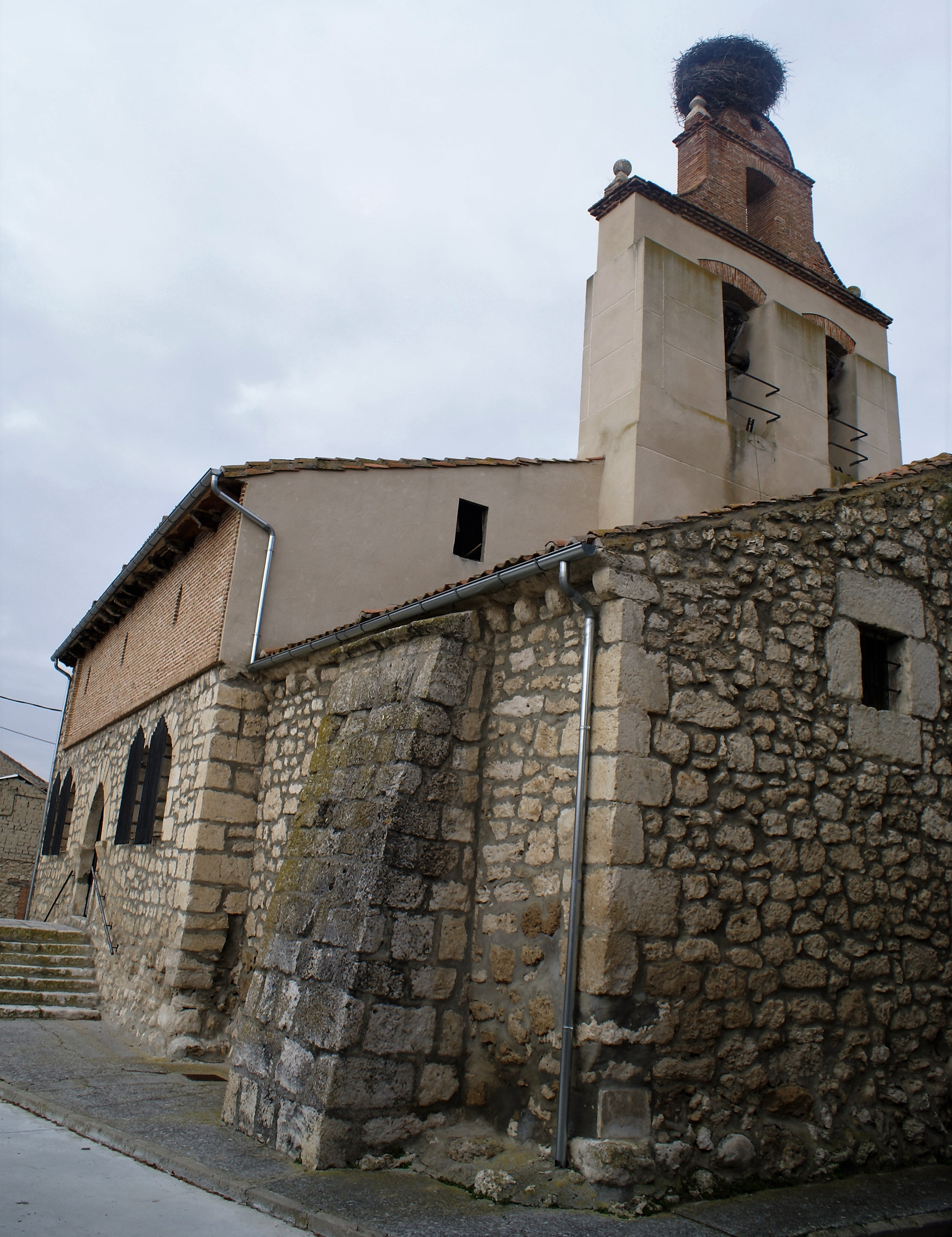 Church of San Cristóbal, San Cristóbal de Cuéllar, Segovia, Spain.